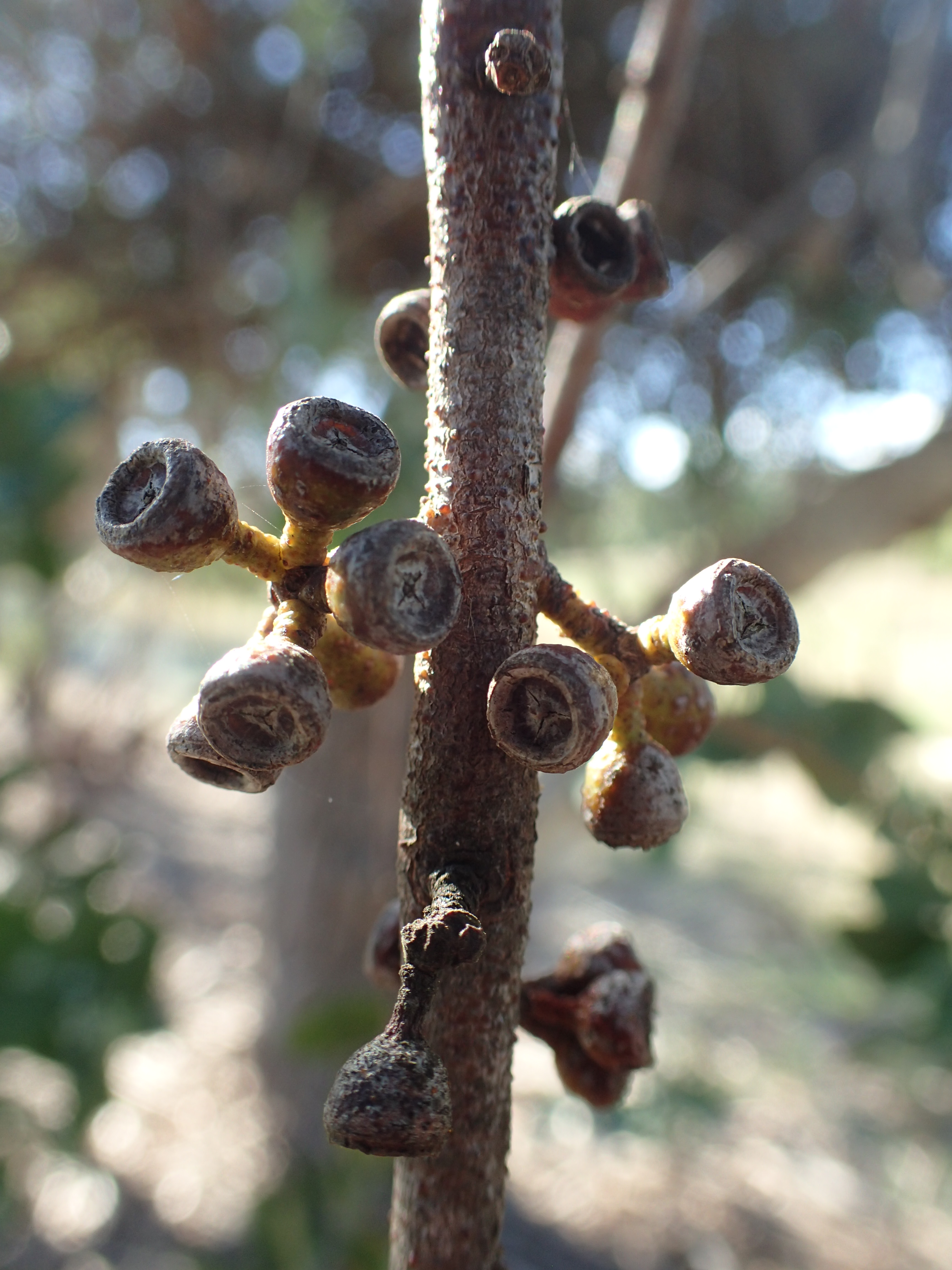 Fruit of Eucalyptus crenulata near the University of New England